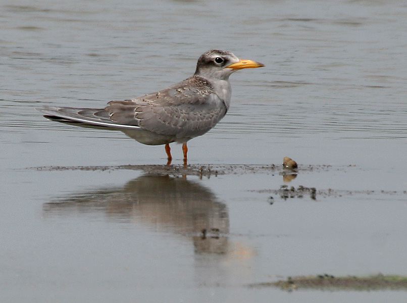 Indian River Tern or just River Tern Sterna aurantia - Sind: Kinai, Sans: Nadi kurri, Pun: Dariai taheri, Guj: Samanya dhomdi, Kenchipunch vabagali, Mar: Nadi suray, Ta: Kulathu aala, Te: Ramadasu, Mal: Puzha ala- at Pocharam lake, Andhra Pradesh, India.